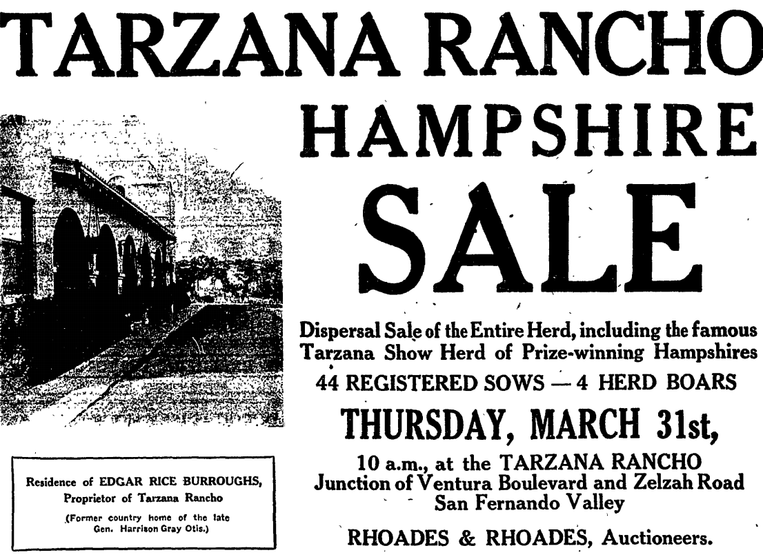 Advertisement in Los Angeles Times disposing of a herd of hogs on the Tarzana Rancho, Los Angeles County, March 27, 1921